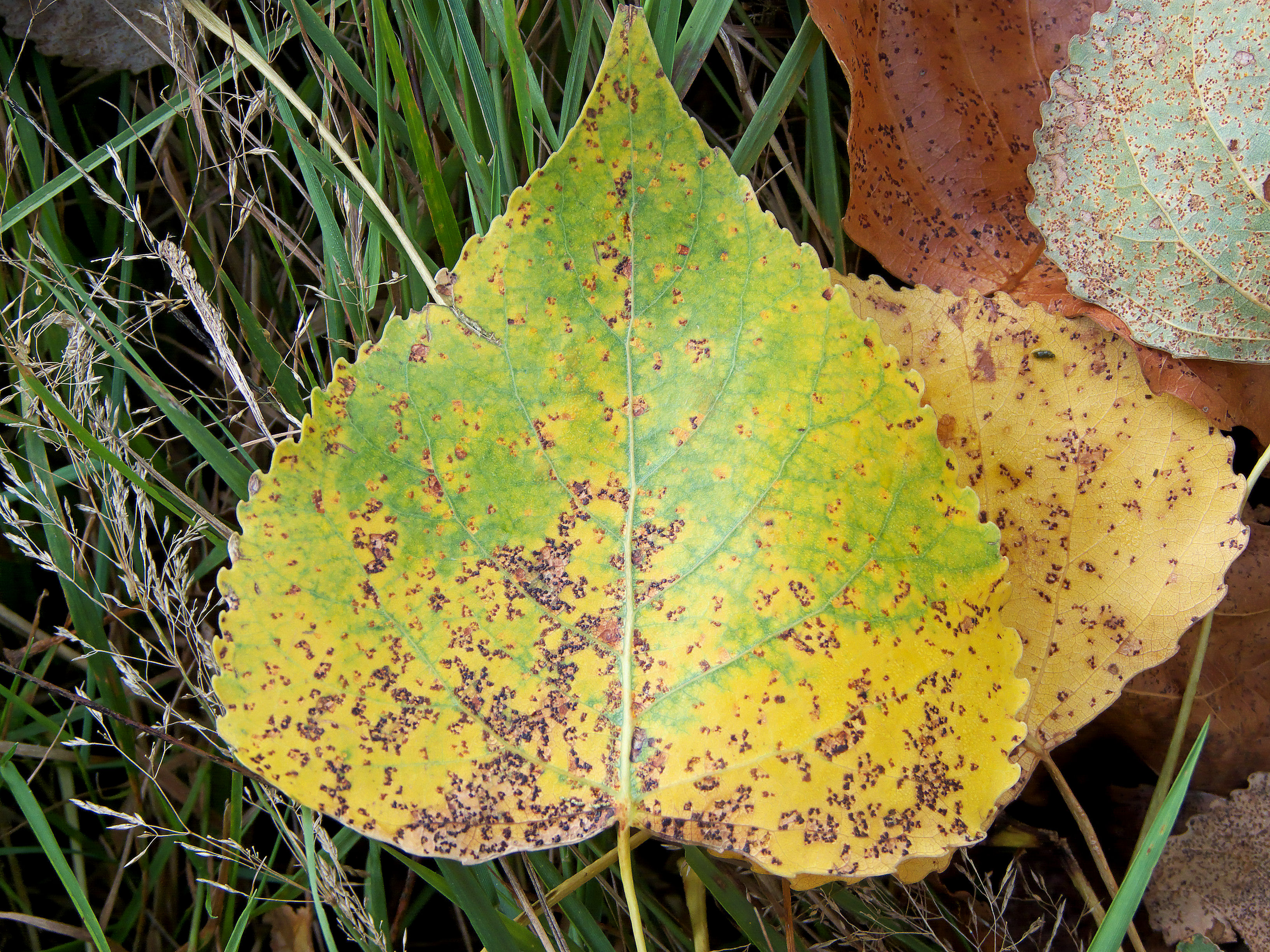 Populus ×canadensis, Melampsora larici-populina telia on the upper leaf surface